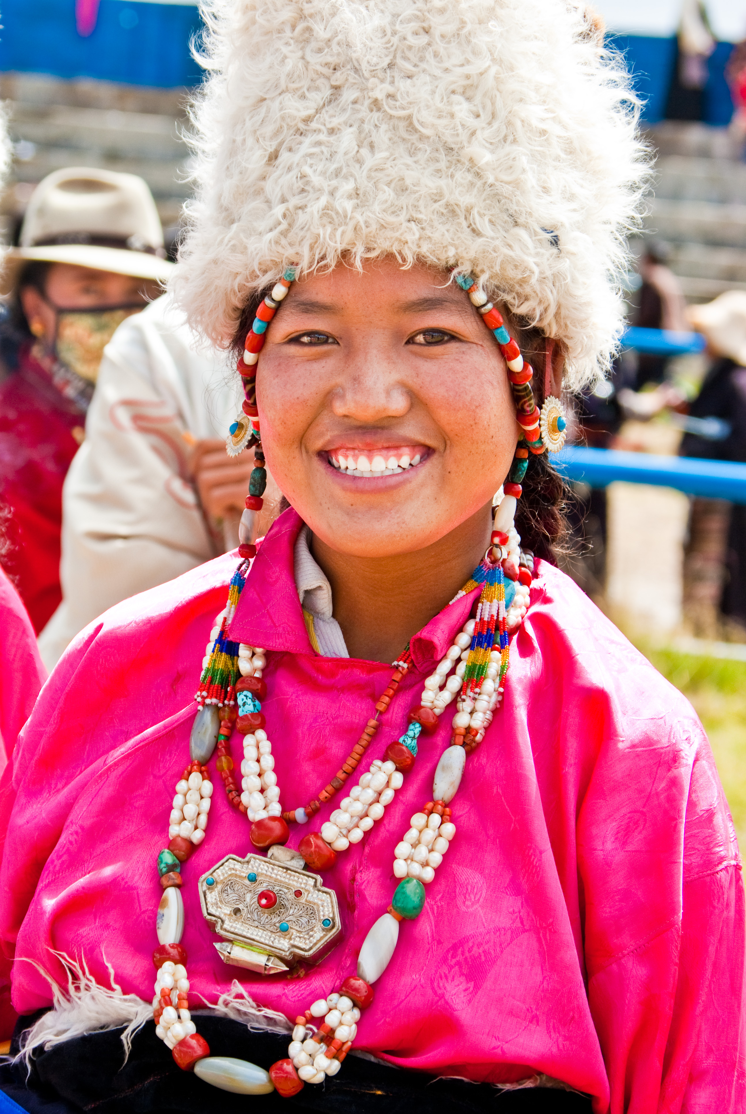 People of Tibet (in Nagqu Horse festival)